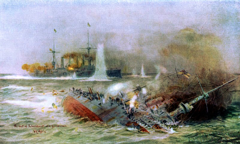 Battle of the Falkland Islands, 1914